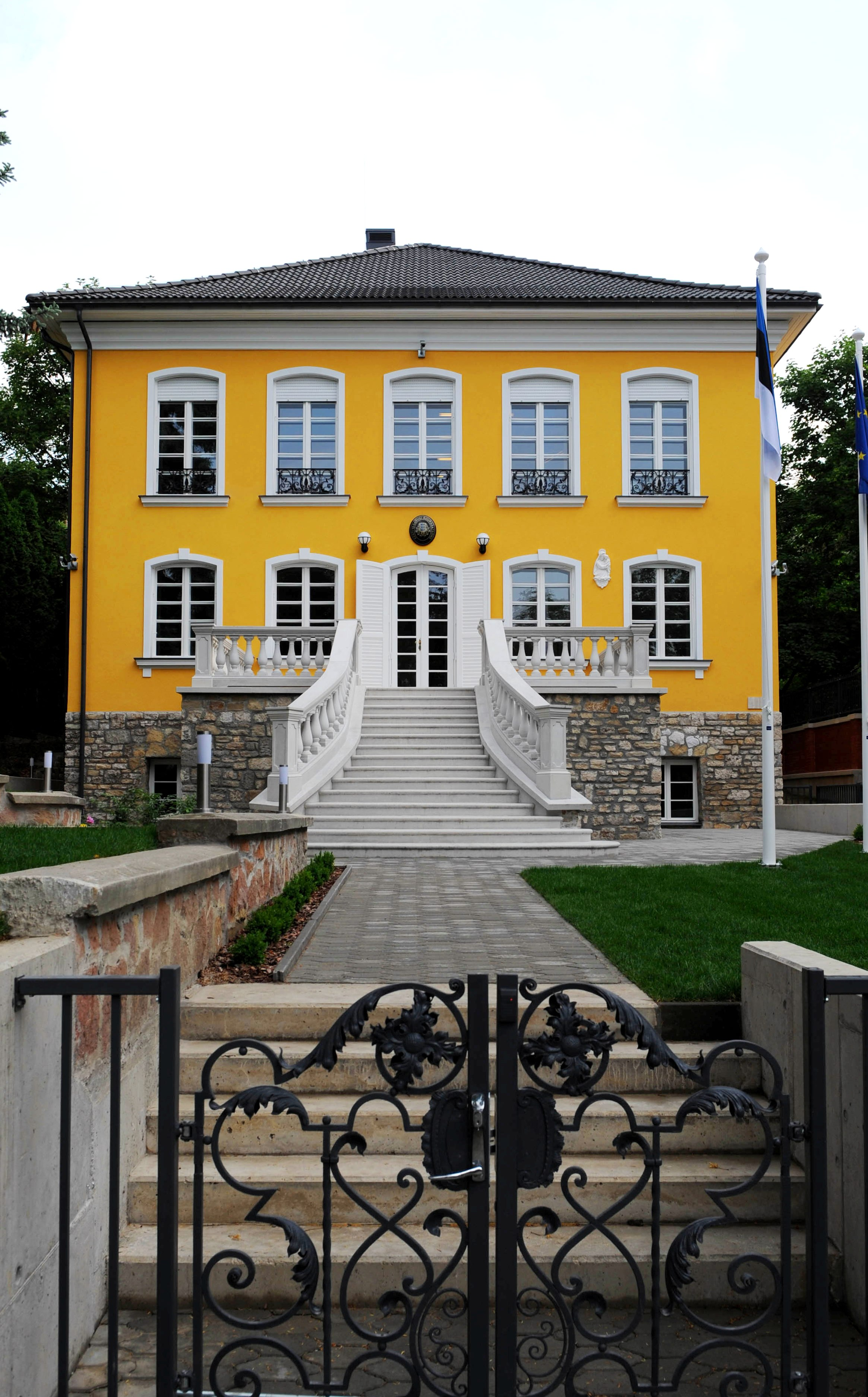 19.05.2009: FM Urmas Paet opened Estonia’s new embassy in Budapest